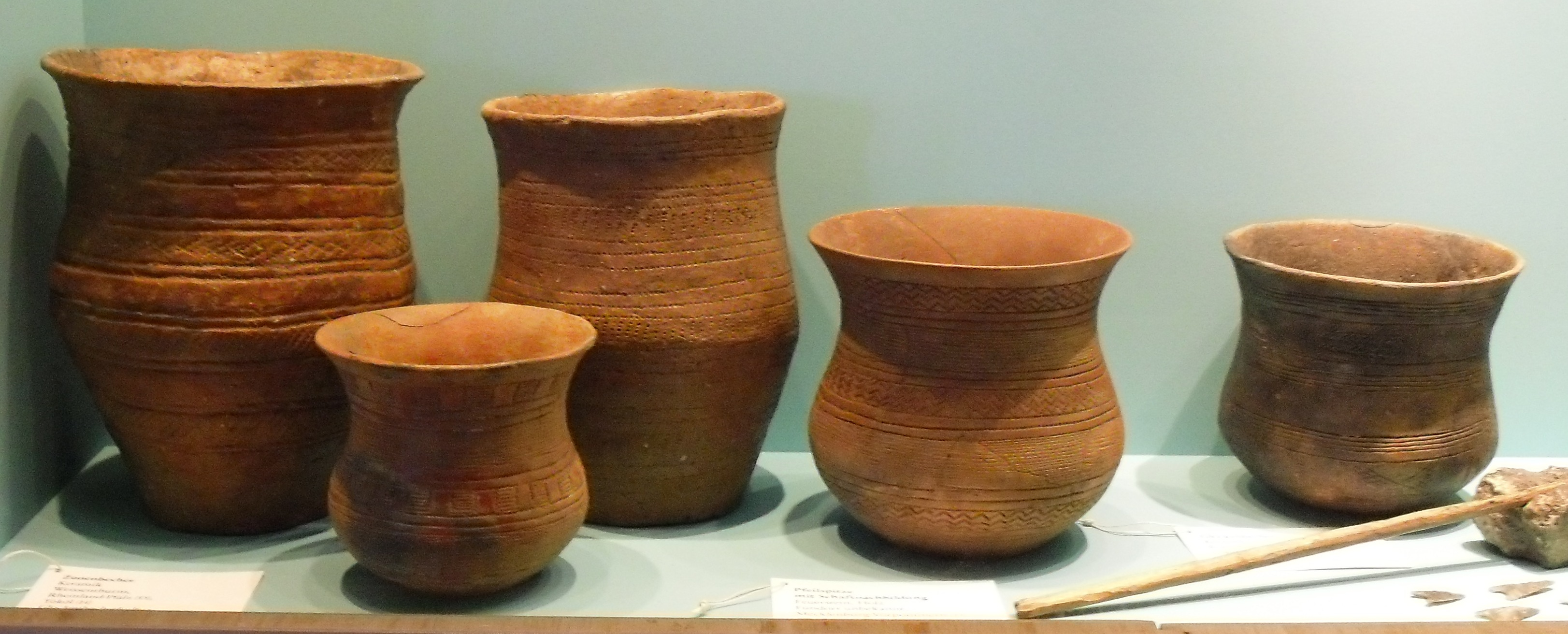 Museum für Vor- und Frühgeschichte (Museum of prehistory and early history), Berlin